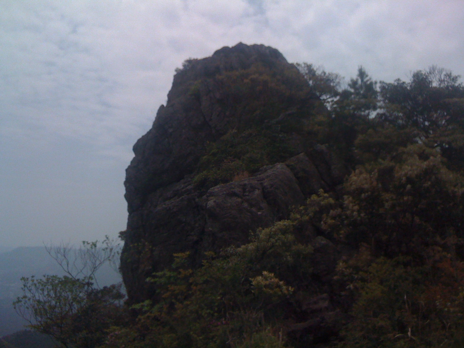 Mount Kurokami (Kurokamizan) in Saga Prefecture, Japan